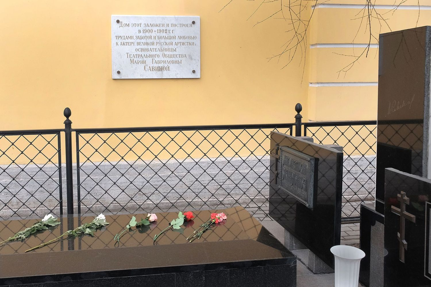 Savina memorial